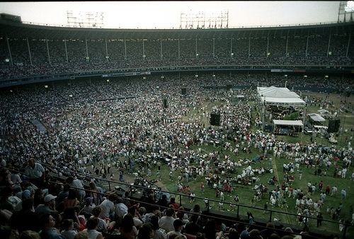 Evangelist Billy Graham, at a Crusade in Cleveland Ohio, on June 11, 1994. This was the first time the Billy Graham Crusade had tried a Youth Night, and there were about 85,000 that attended the concert, at Cleveland Stadium, on the shores of Lake Erie. Photo Paul M. Walsh